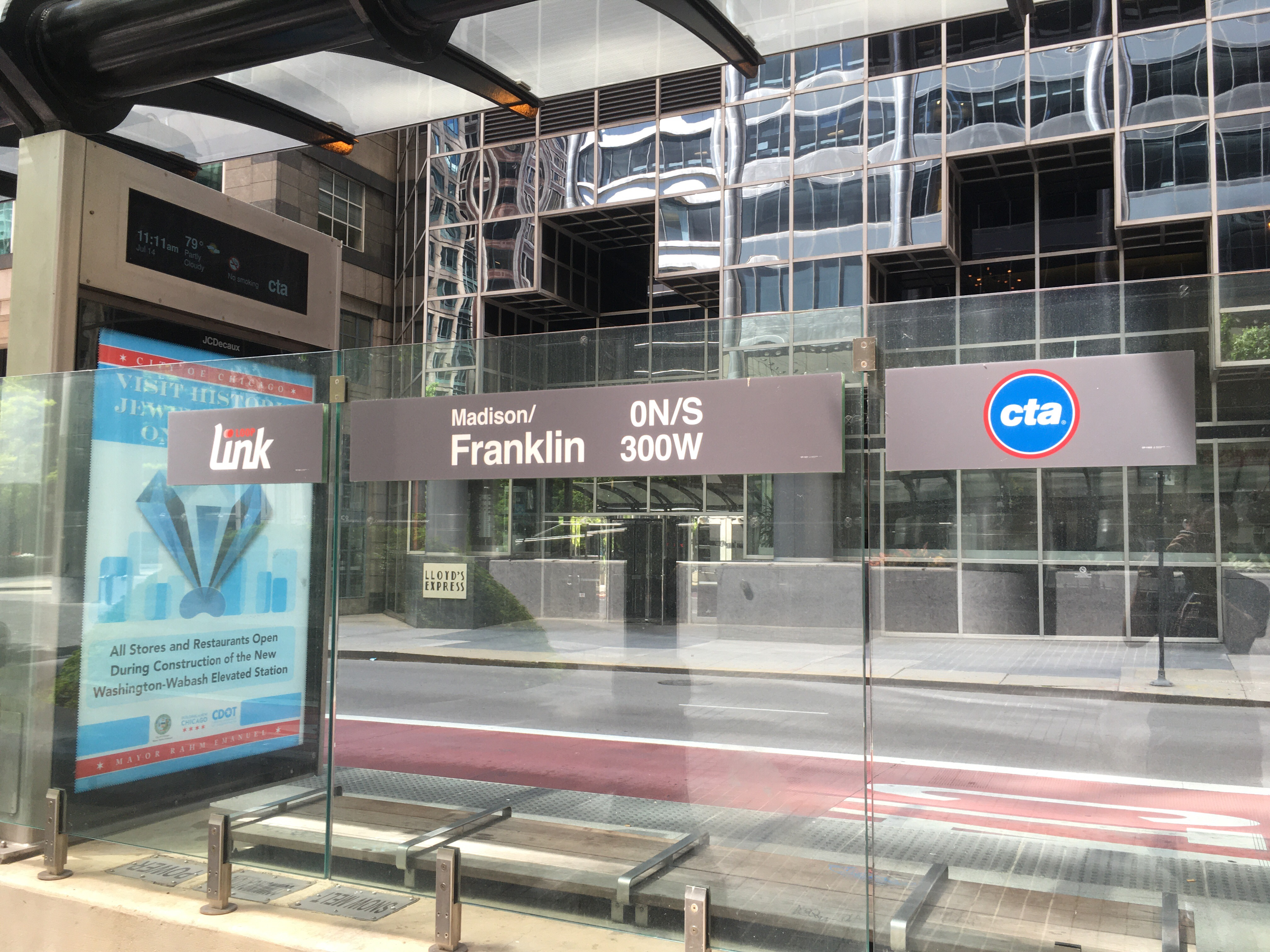 Madison-Franklin bus stop - CTA Loop Link